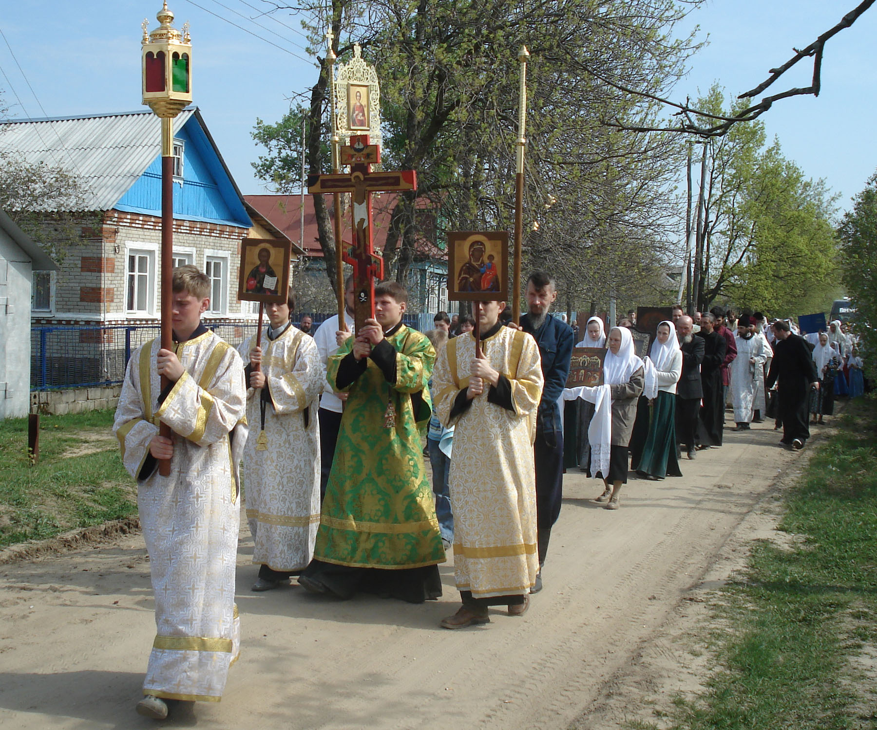 Crucession in the village of Gora. Russian Orthodox Old-Rite Church. Davidovo-Gora-Yelizarovo-Lyakhovo (Guslitsa) Orekhovo-Zuevo district Moscow reg.